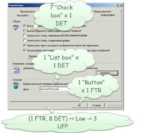 This work is based on a work in the public domain. It has been digitally enhanced and/or modified. This derivative work has been (or is hereby) released into the public domain by its author, ::User:| . This applies worldwide. In some countries this may not be legally possible; if so: ::User:| grants anyone the right to use this work for any purpose, without any conditions, unless such conditions are required by law.